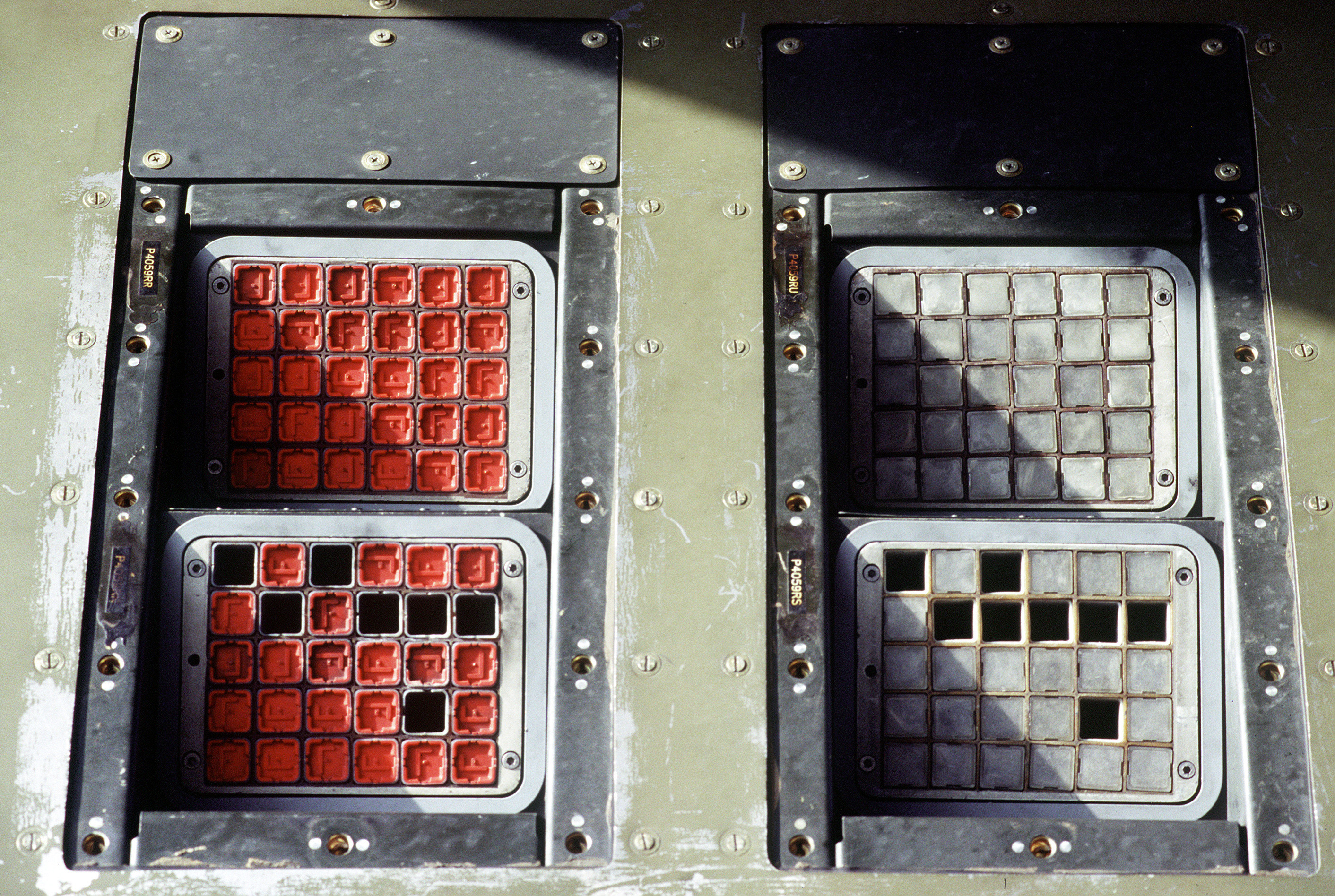 The flare and chaff dispensers, located on each side of the C-130 Hercules, offer some protection against surface to air threats. This C-130, belonging to the 61st Airlift Squadron, Little Rock Air Force Base, Arkansas, provides inter-theater transport capabilities to the former Yugoslavia region during Joint Guard. Location: RAMSTEIN AIR BASE, RHEINLAND-PFALZ DEUTSCHLAND / GERMANY (DEU)